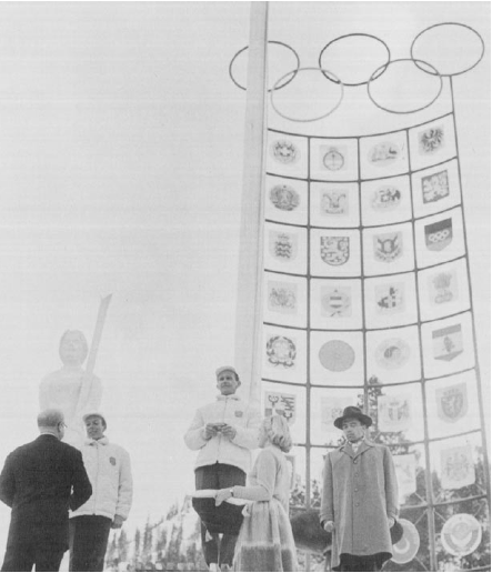 IOC President Avery Brundage presents the silver medal to Rolf Ramgard of Sweden after the 30km cross country skiing event, Squaw Valley Olympics, 1960. The sign in back shows coats of arms or national emblems of the 30 countries which participated (with a combined neutral emblem for both East and West Germany).